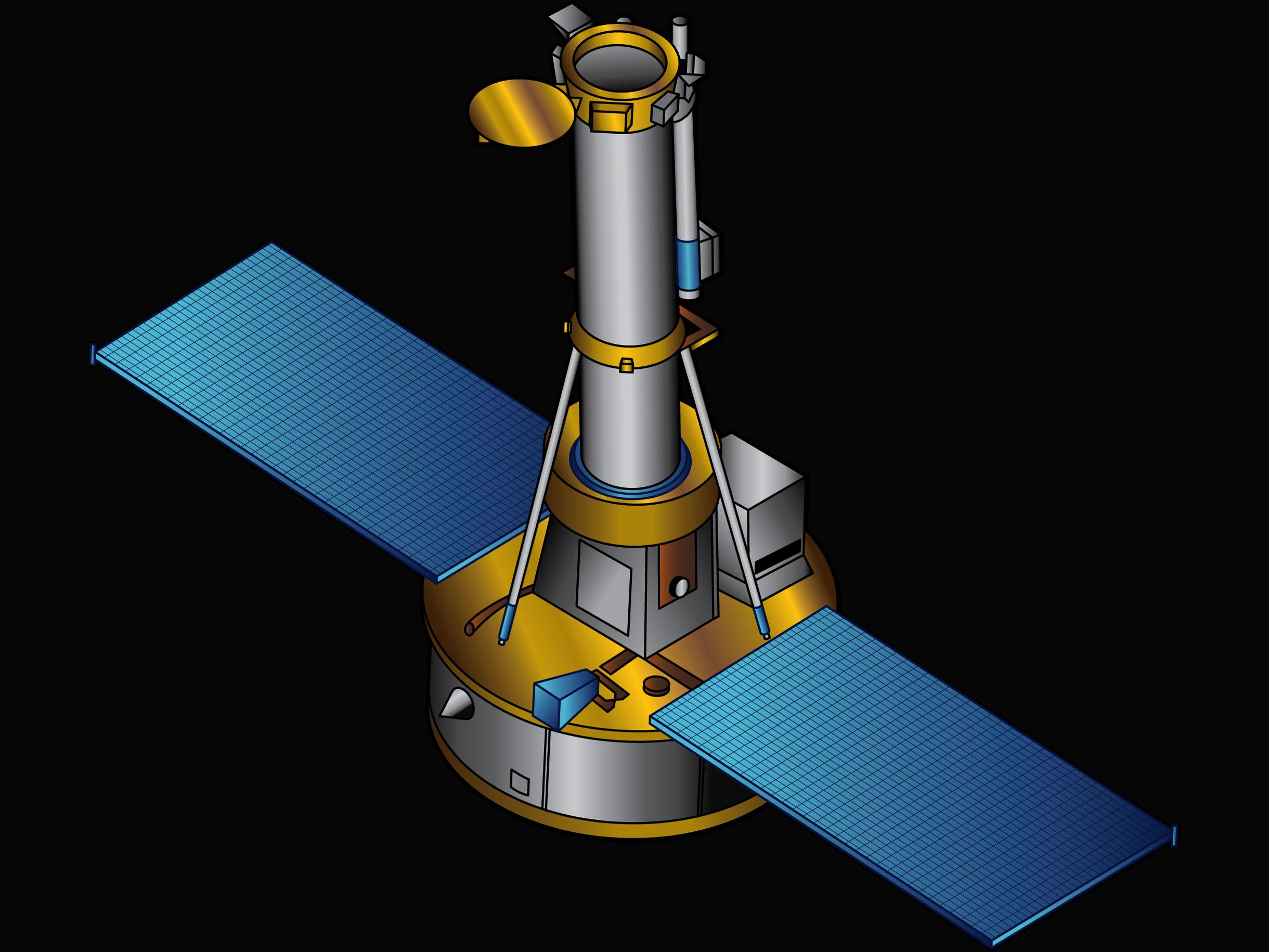 Interface Region Imaging Spectrograph (IRIS) Graphic of proposed IRIS spacecraft. The IRIS instrument is a multi-channel imaging spectrograph with a 20 cm UV telescope. IRIS will obtain spectra along a slit (1/3 arcsec wide), and slit-jaw images. Credit: NASA